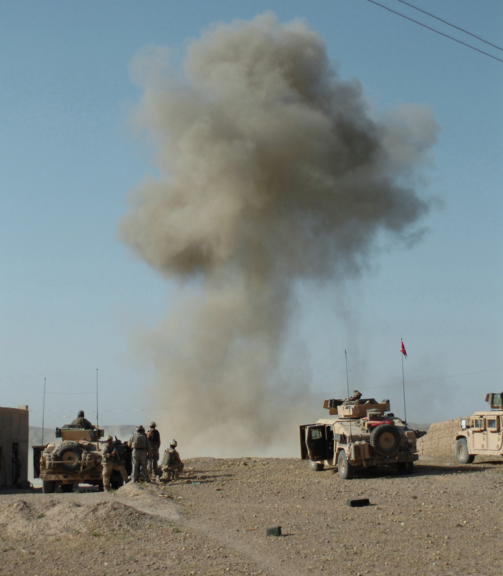 U.S. Army Soldiers with 1st Battalion, 508th Infantry Regiment and Special Operations Forces search for enemy fighters after Air Force munitions strike a target in the Sangin District of Afghanistan April 10, 2007. Soldiers with Combined Joint Special Op erations Task Force - Afghanistan have been conducting operations to eliminate insurgents and promote peace and stability in the area.